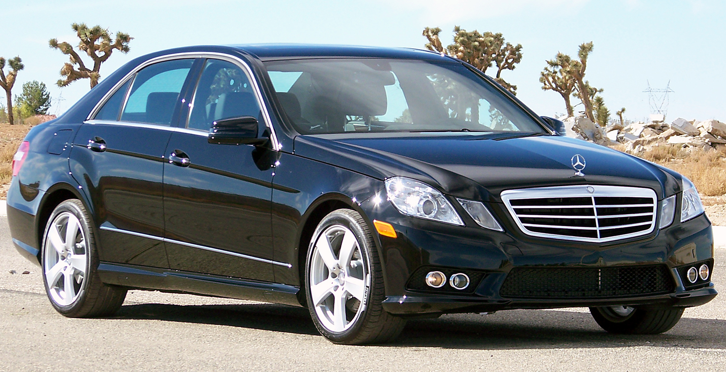 2010 Mercedes-Benz E350 photographed in USA.